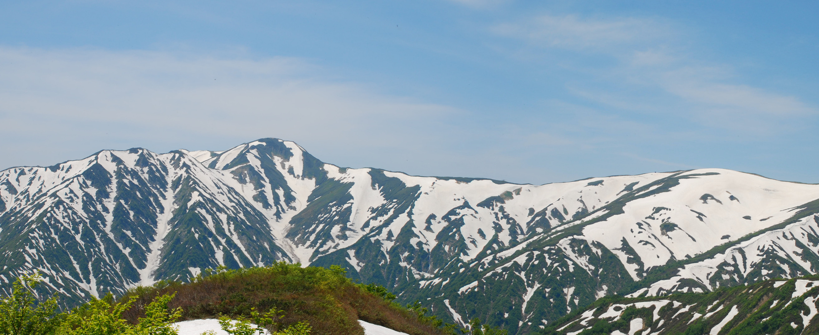 Looking WNW from Iboiwayama. Dainichidake on the left. Onishidake on the right.